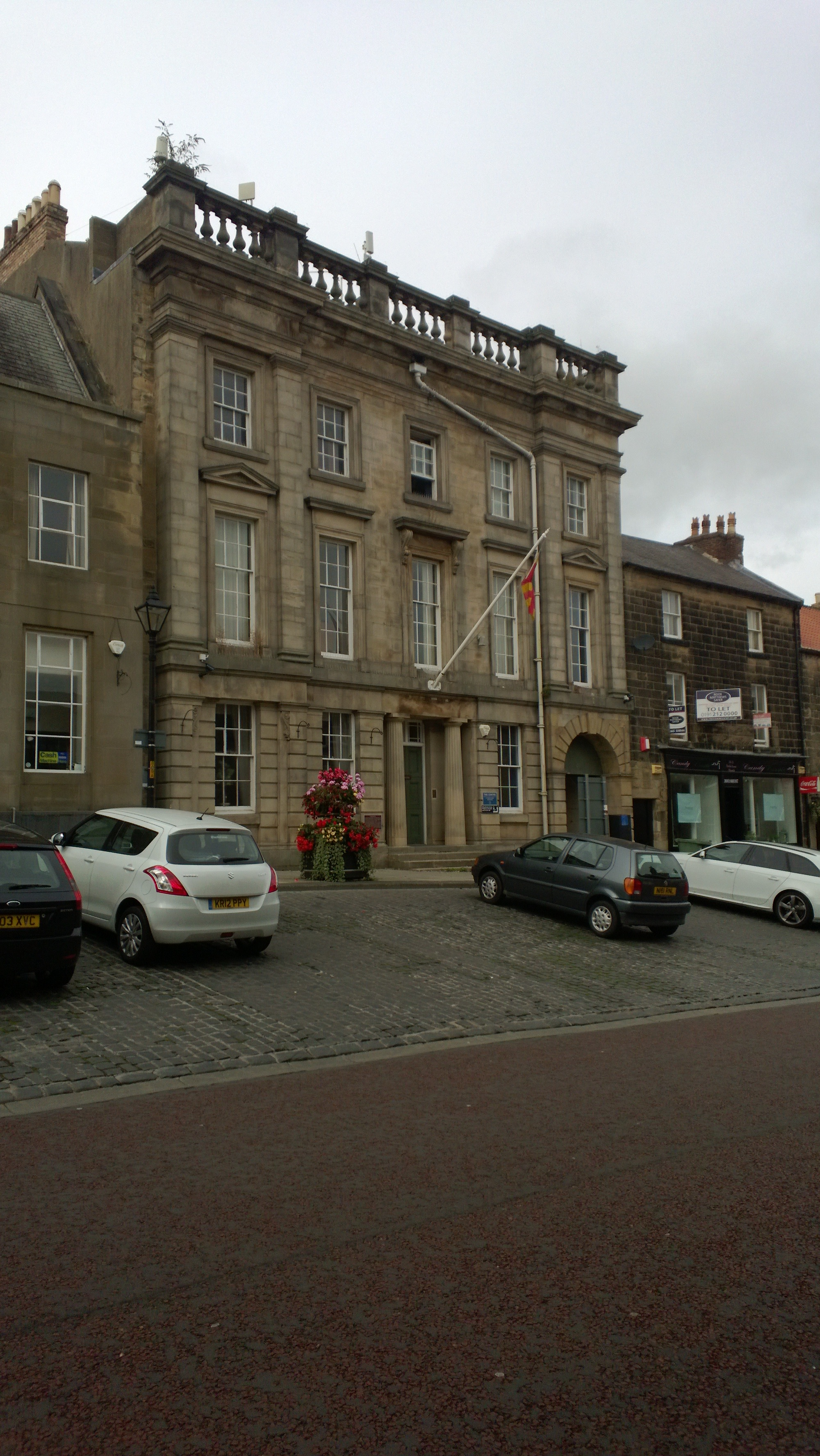 Former Territorial Drill Hall, Alnwick